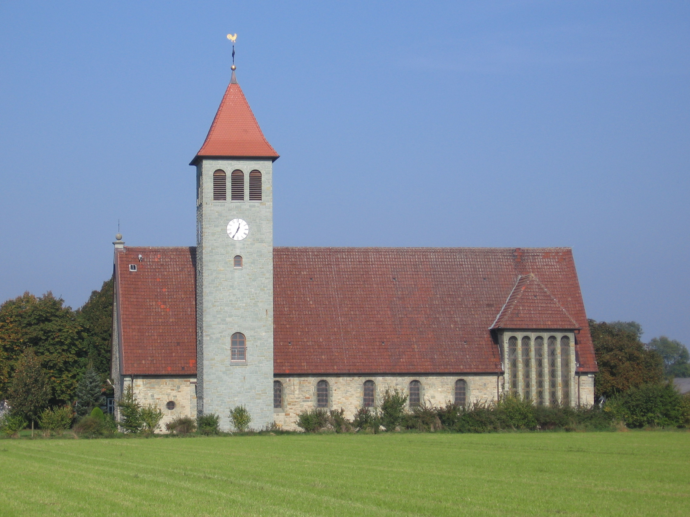 Delbrück: Catholic Church St. Josef in AnreppenEsperanto: Delbrück: Katolika preĝejo Sankta Jozefo en la urboparto Anreppen